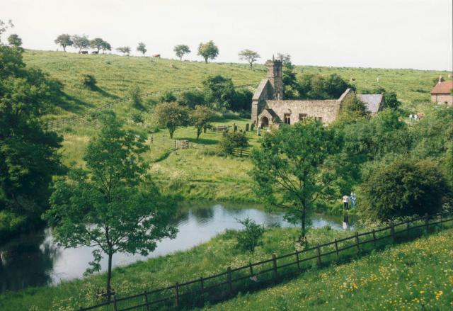 Picture of Wharram Percey, from this image at .uk. Submitted to that site by Paul Allison Taken in 1993 Description: Deserted Medieval Village, Looking north from old Fish Pond